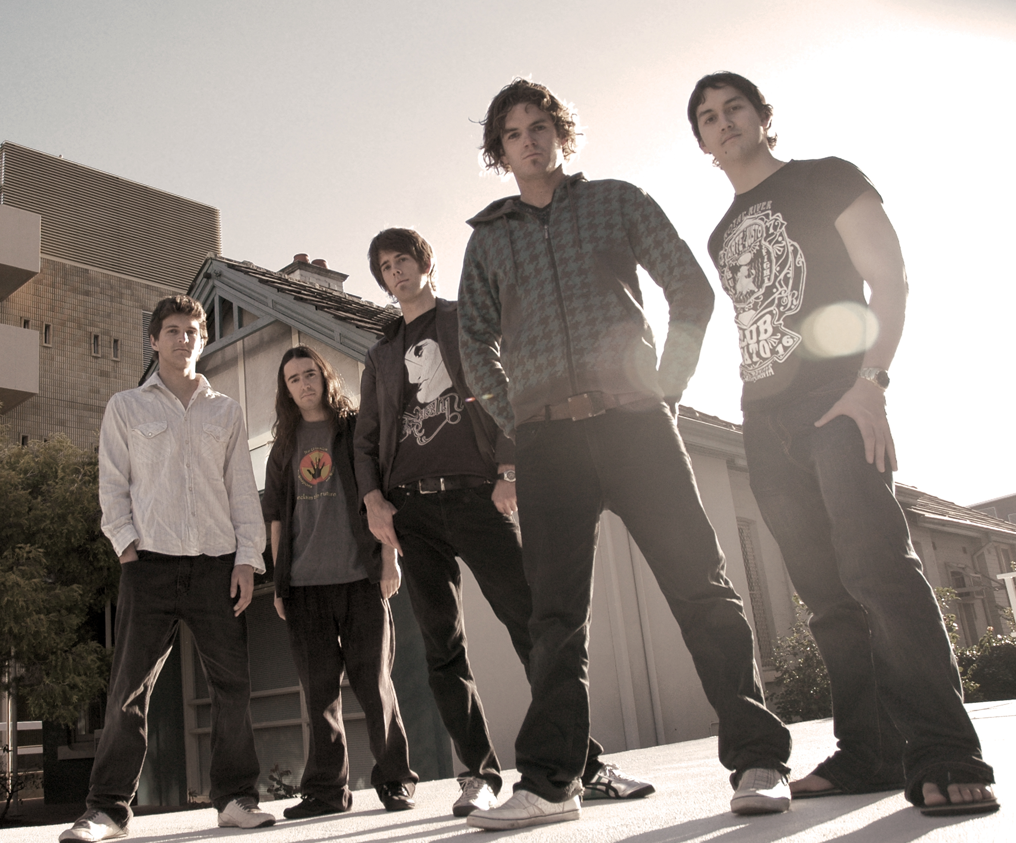 High Res picture of Thursdays Page in their 2008 lineup